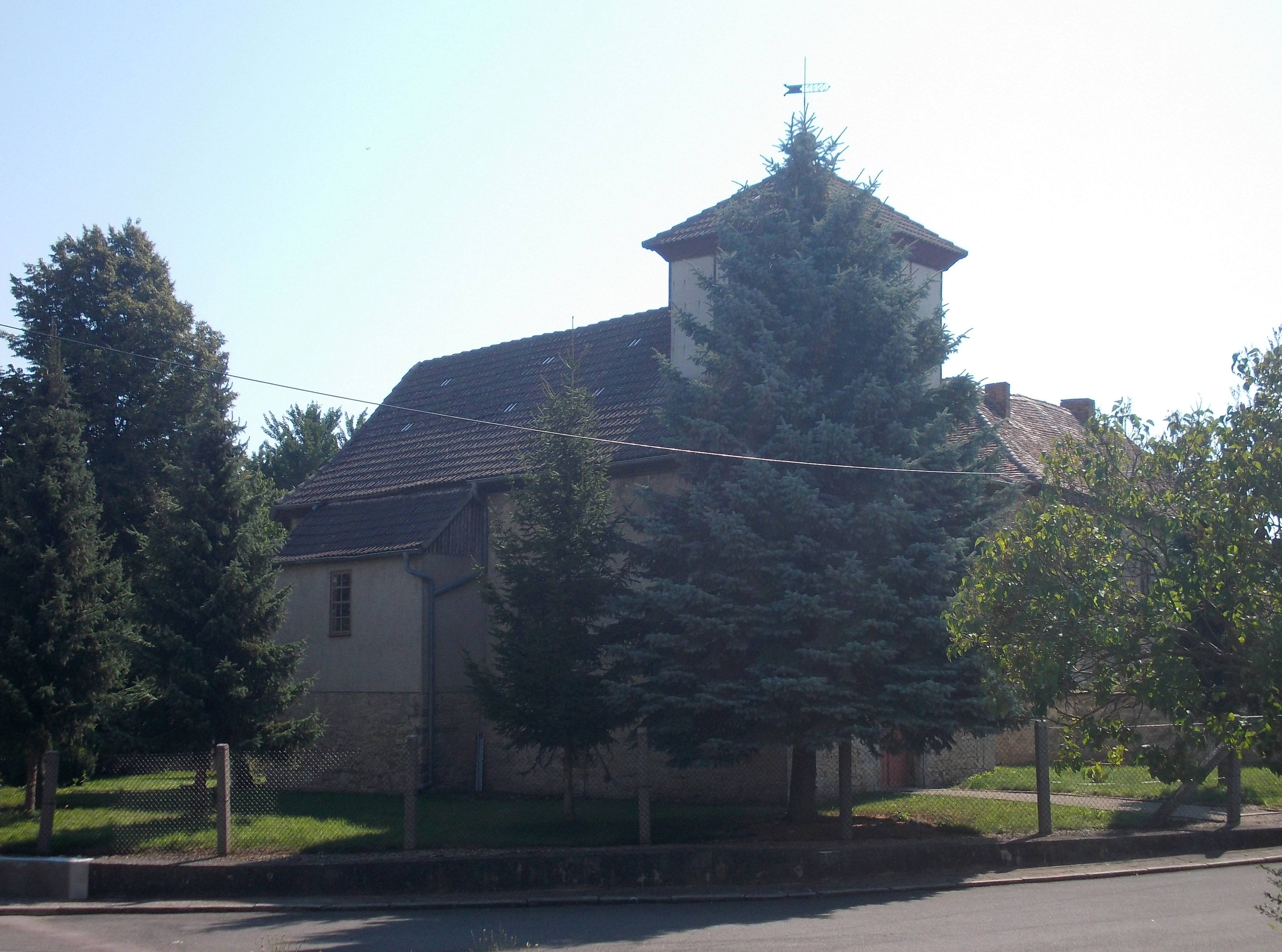 Gössnitz church (An der Poststrasse, district: Burgenlandkreis, Saxony-Anhalt)